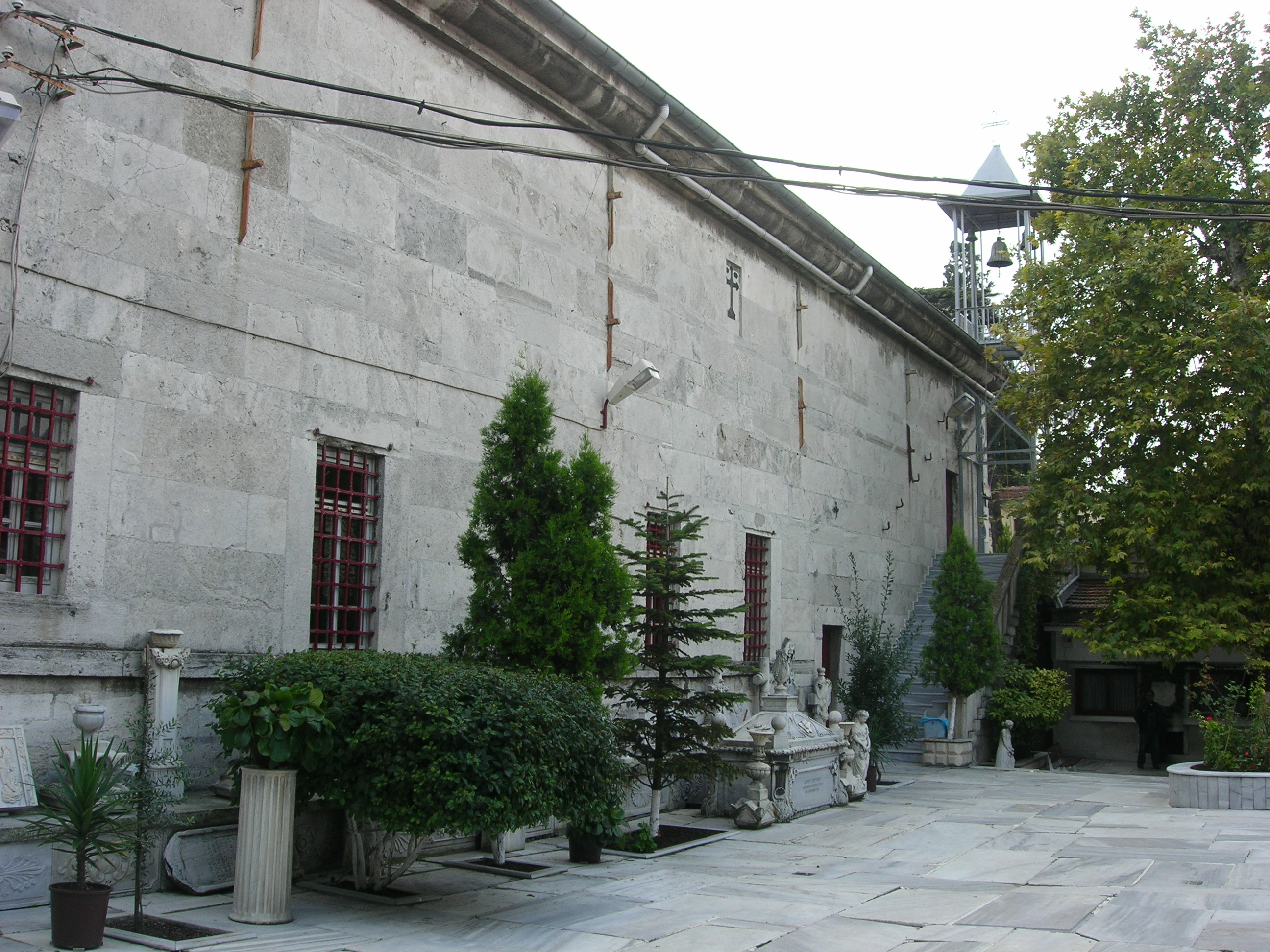 The Church of St. Mary of the source in Istanbul seen from North